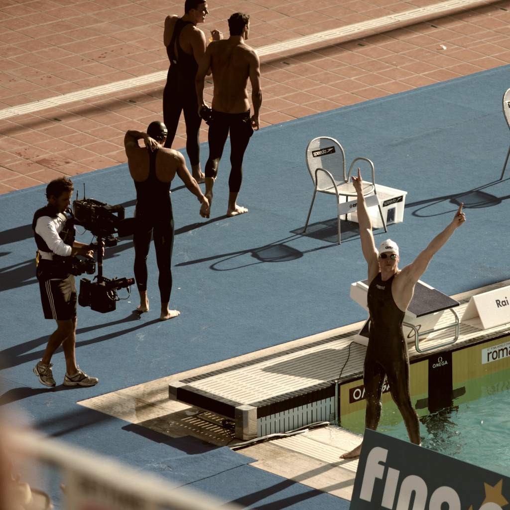 German swimmer Paul Biedermann after his winning over American Michael Phelps in the 200m freetsyle event final during 2009 FINA World Championships, Rome, Italy.